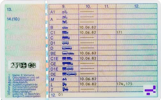 Specimen for the European driving licence used in Germany, back side